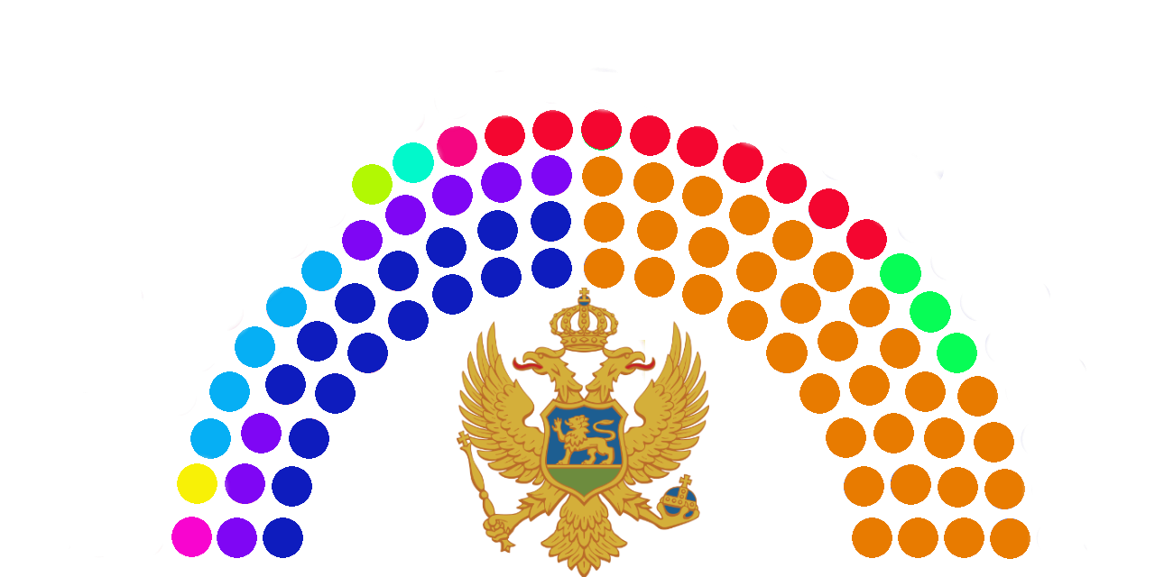 Structure of the Montenegrin Parliament from the election in 2009